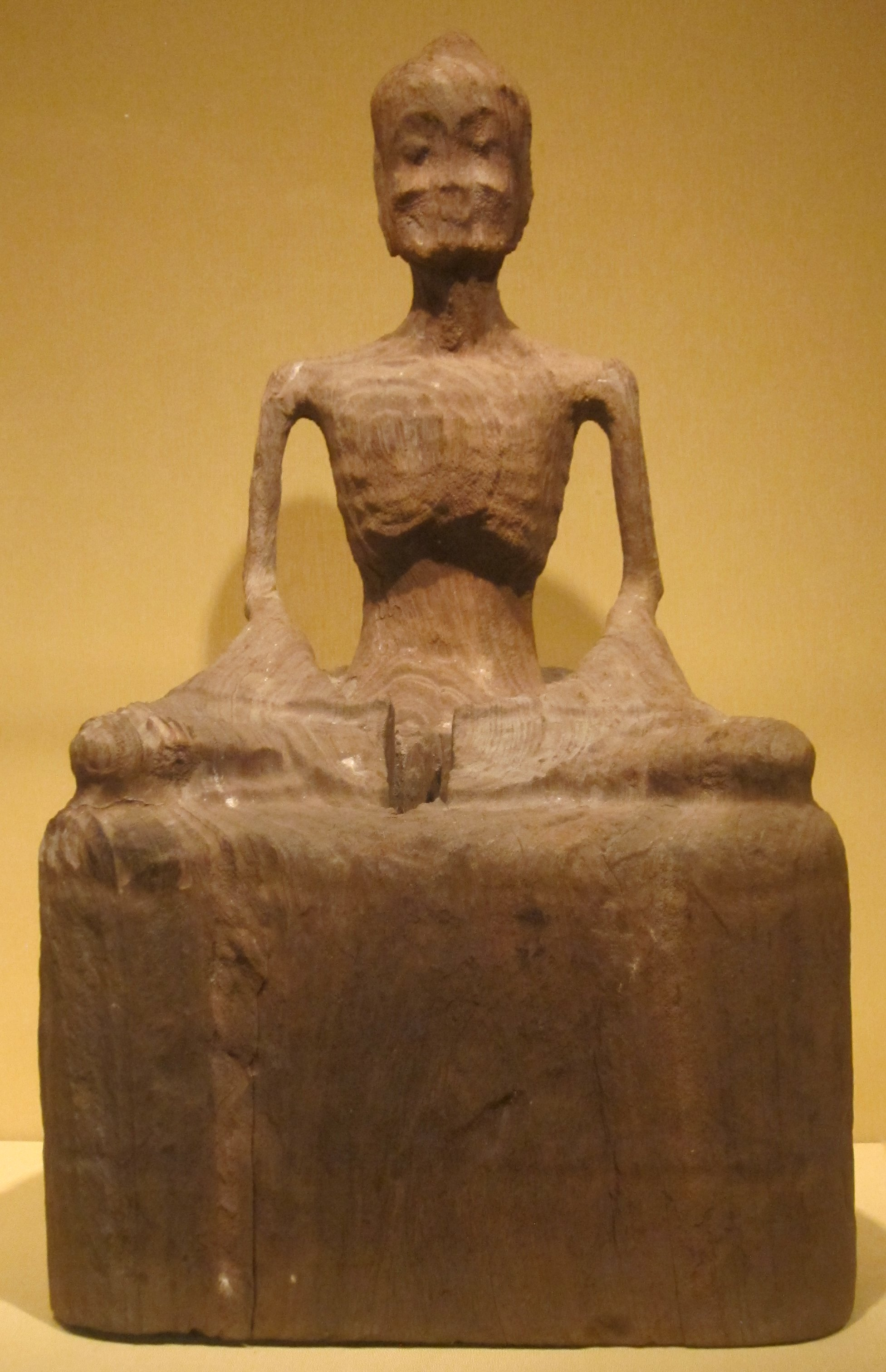 Wood sculpture of fasting Buddha from Funan (present-day Cambodia), 3rd-6th century, Honolulu Academy of Arts, Gift of Joel Alexander Greene, 2004